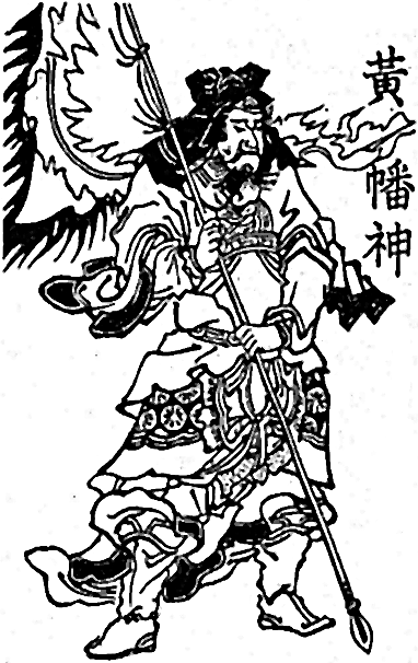 God of Ooban. 黄幡神